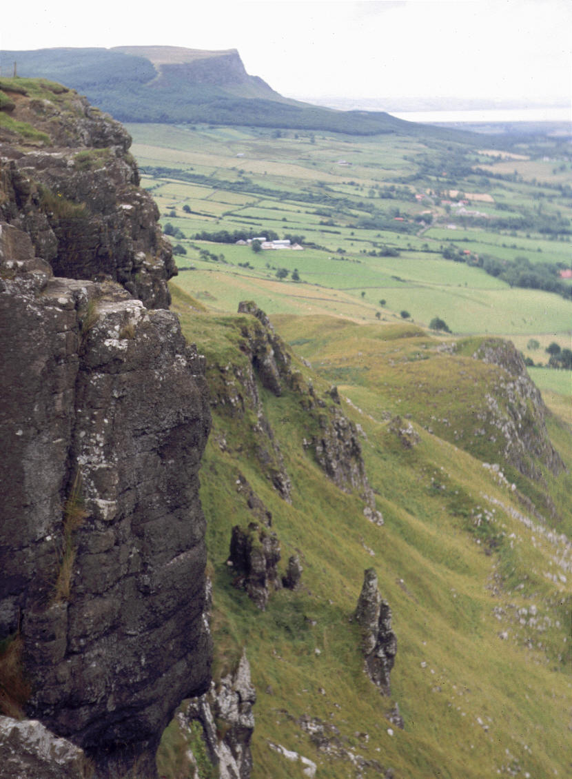 View from Castle Rock towards Binevenagh, Co. Derry, Northern Ireland. Photo taken July 1988.